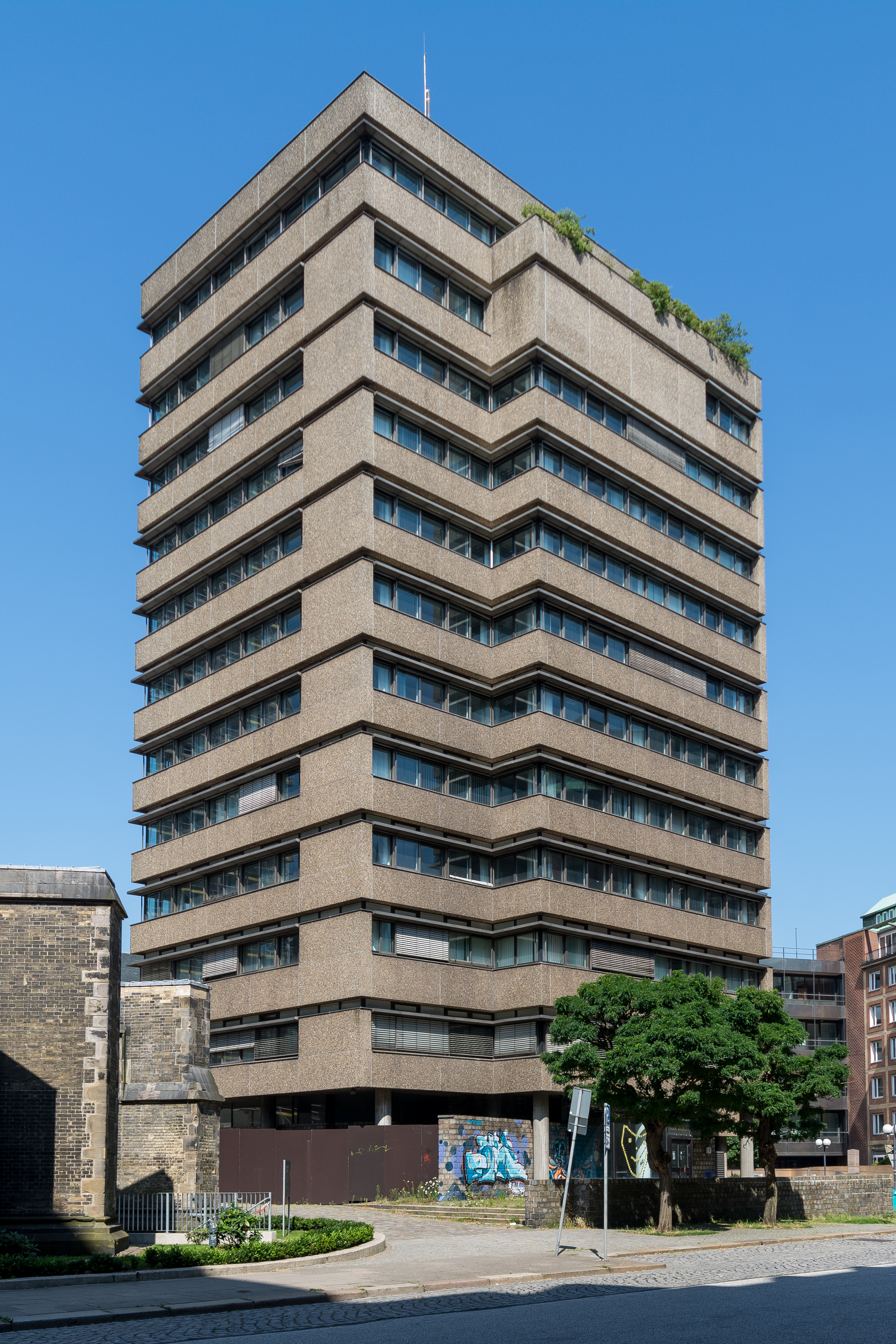 Abandoned office building Neue Burg 1 in Hamburg. This is a photograph of an architectural monument.